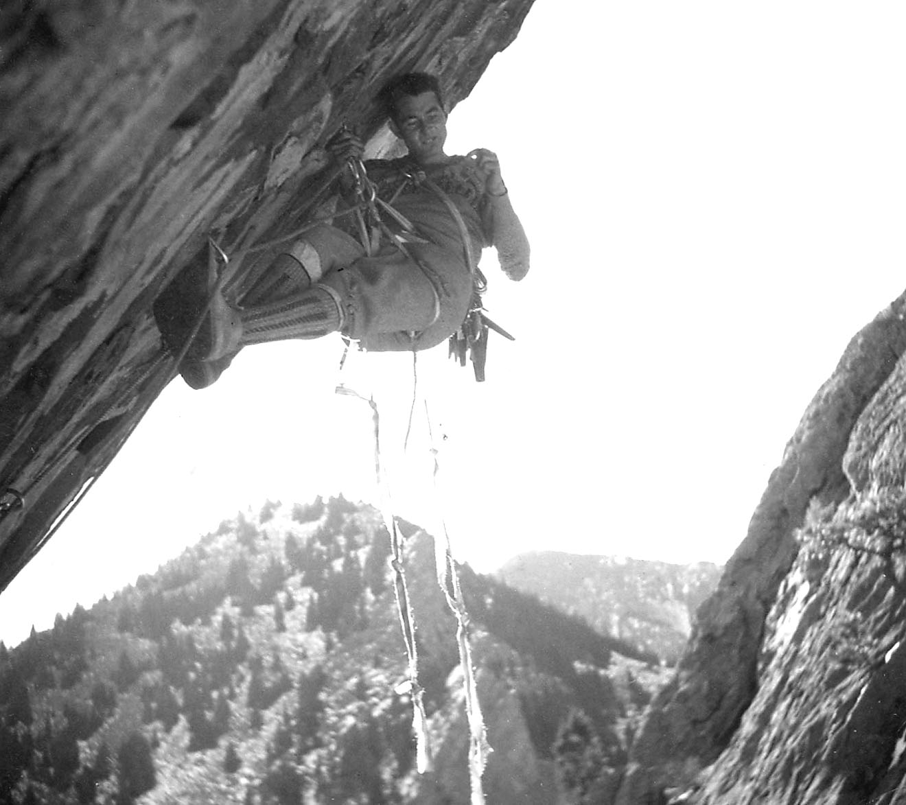 Layton Kor makes the first ascent of the enormous overhang-roof in Eldorado Canyon, 1963. Photo by Pat Ament.